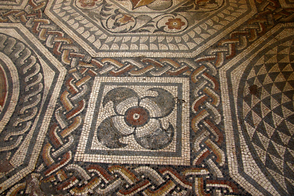 Roman mosaic in the Jewry Wall museum.See for details of Roman Leicester.